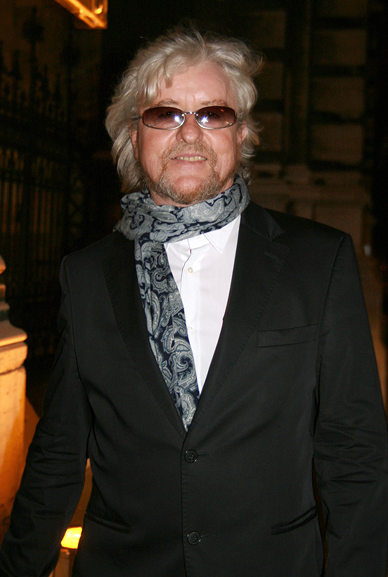 Reinhold Bilgeri at the Vienna Film Ball 2010 (Vienna city hall).